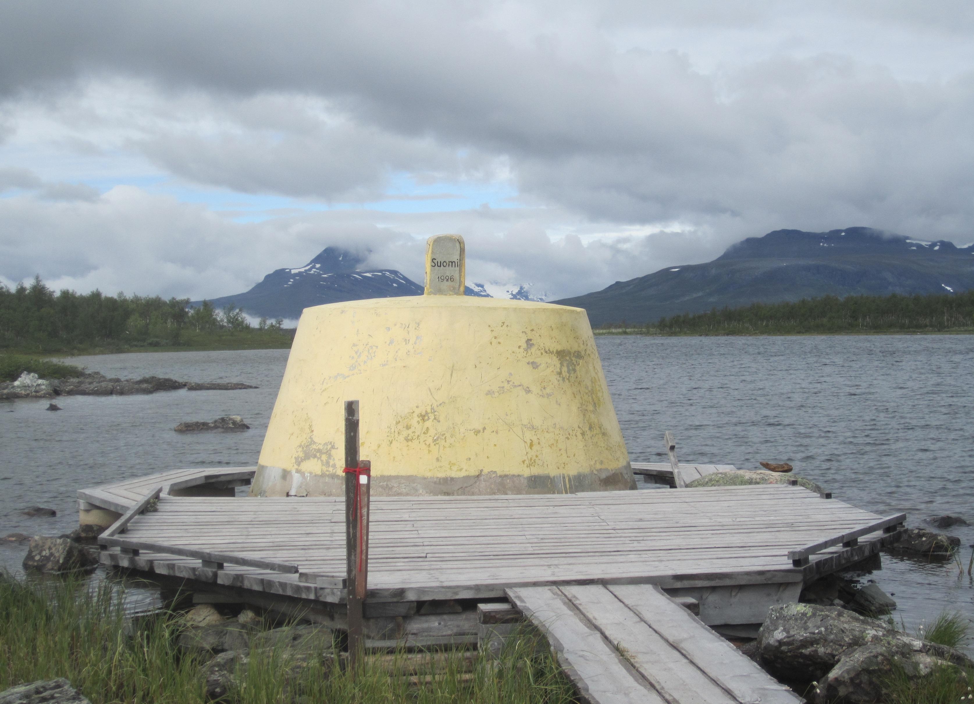 Tripoint (Treriksröset) at the border of Finland, Sweden and Norway.